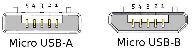 Micro USB plugs.